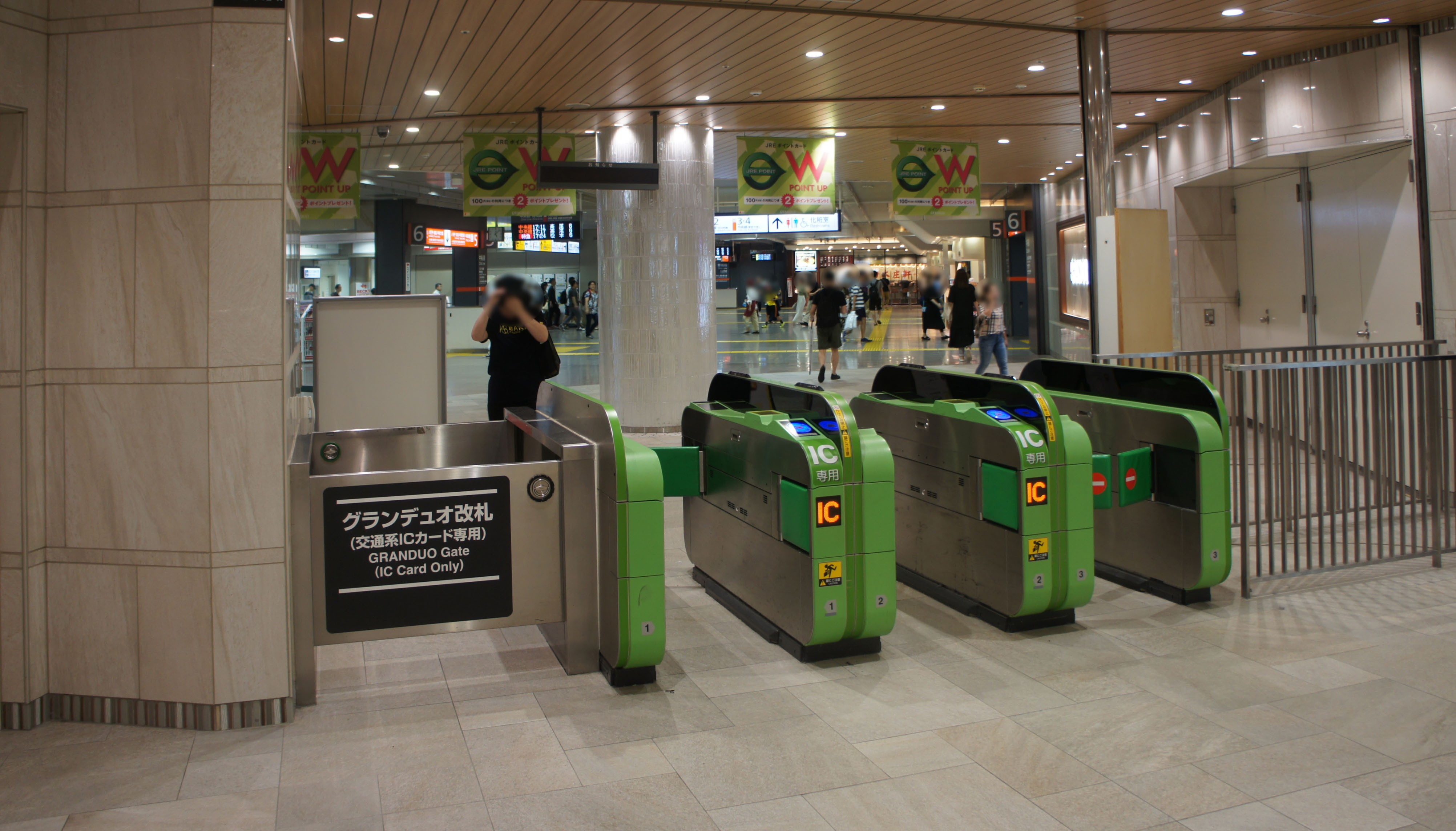 Granduo Gates of JR Tachikawa Station